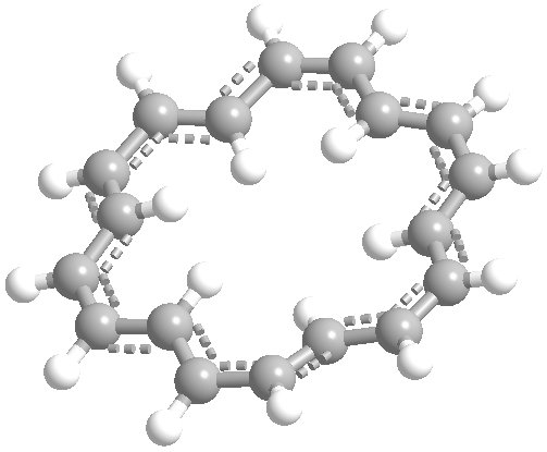 [18]annulene